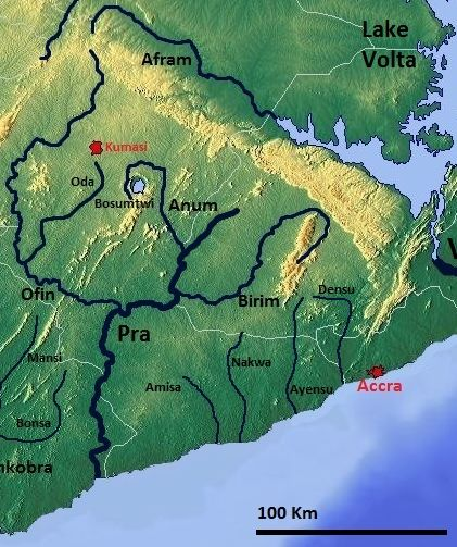 Pra River OSM